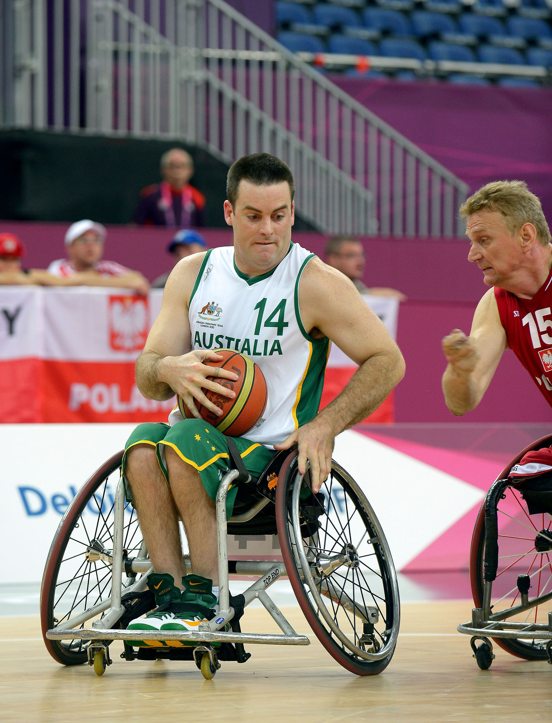 Photograph of Australian Paralympic team member Nick Taylor at the 2012 Summer Paralympic Games in London